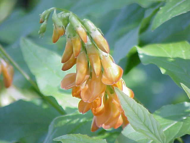 Species: Lathyrus aureus Family: Fabaceae Image No. 1